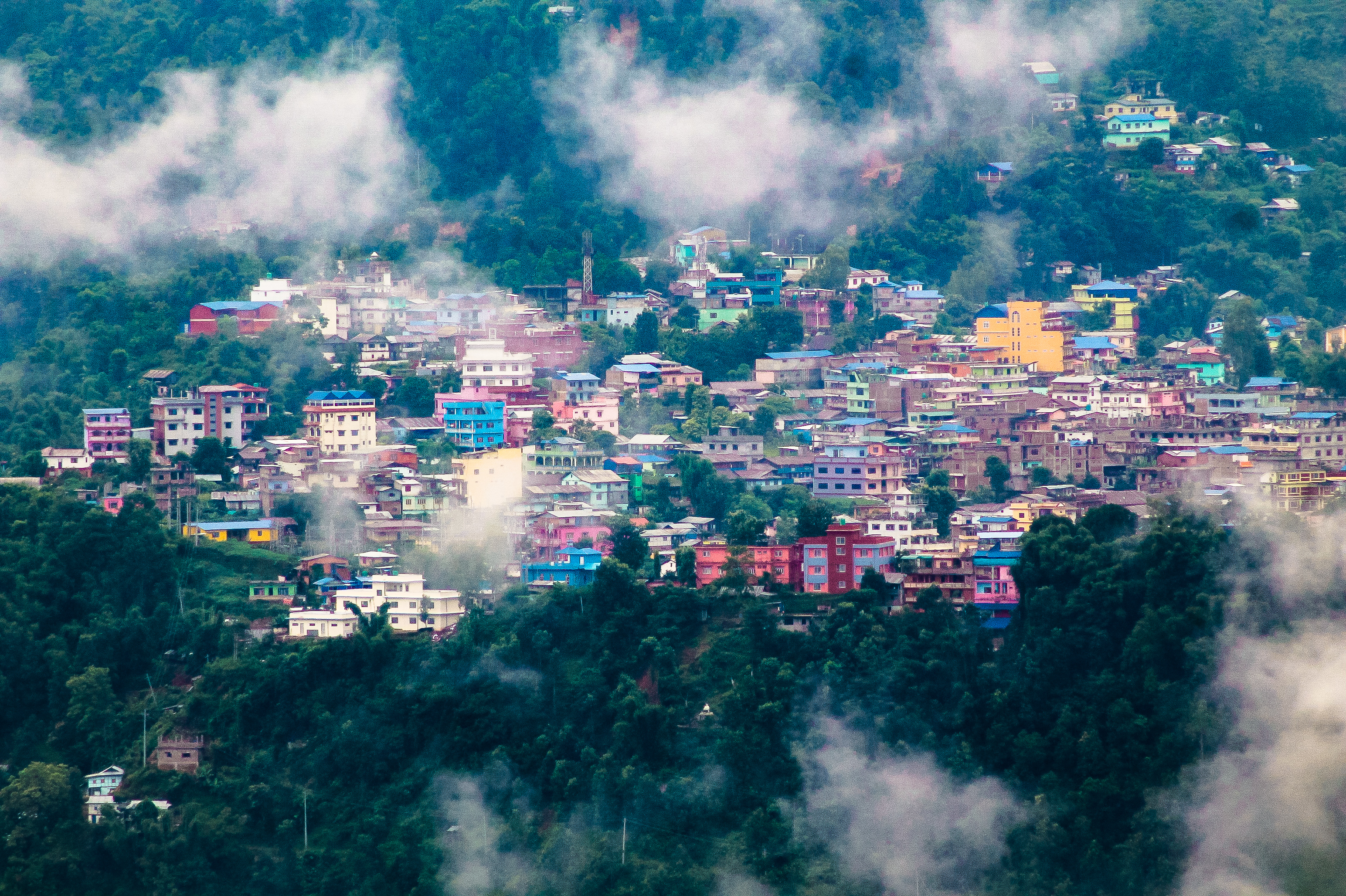 This is a picture of phidim. Phidim is a municipality of Panchthar district in the mechi zone.